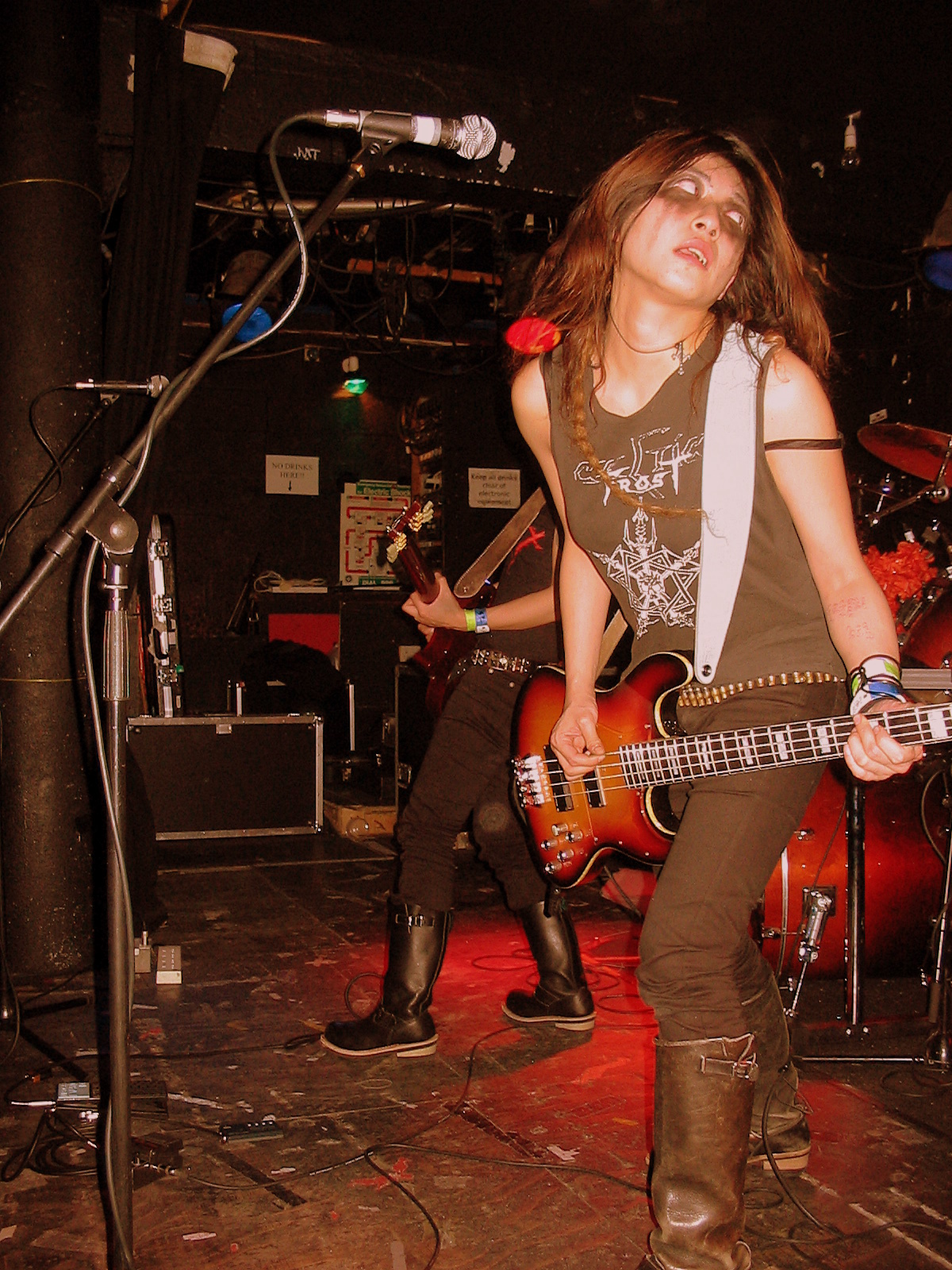 Gallhammer live in Glasgow